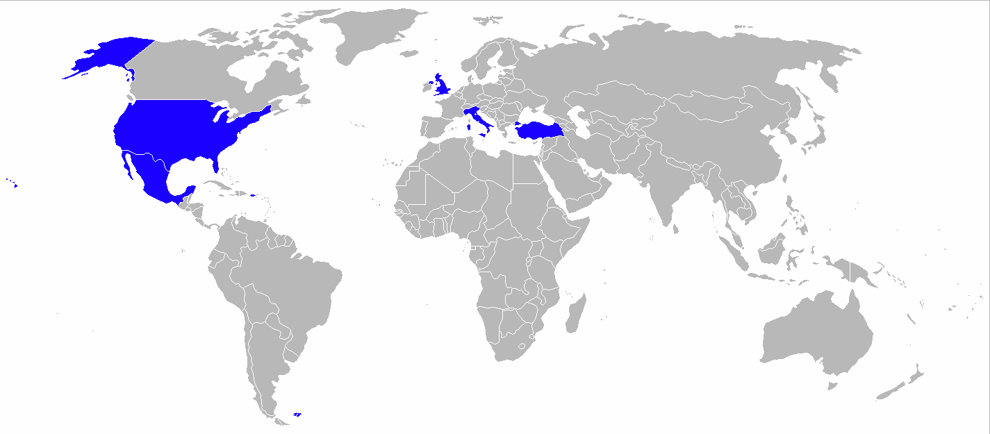 MQ-9 Reaper Operators 2010 (former operators in red)